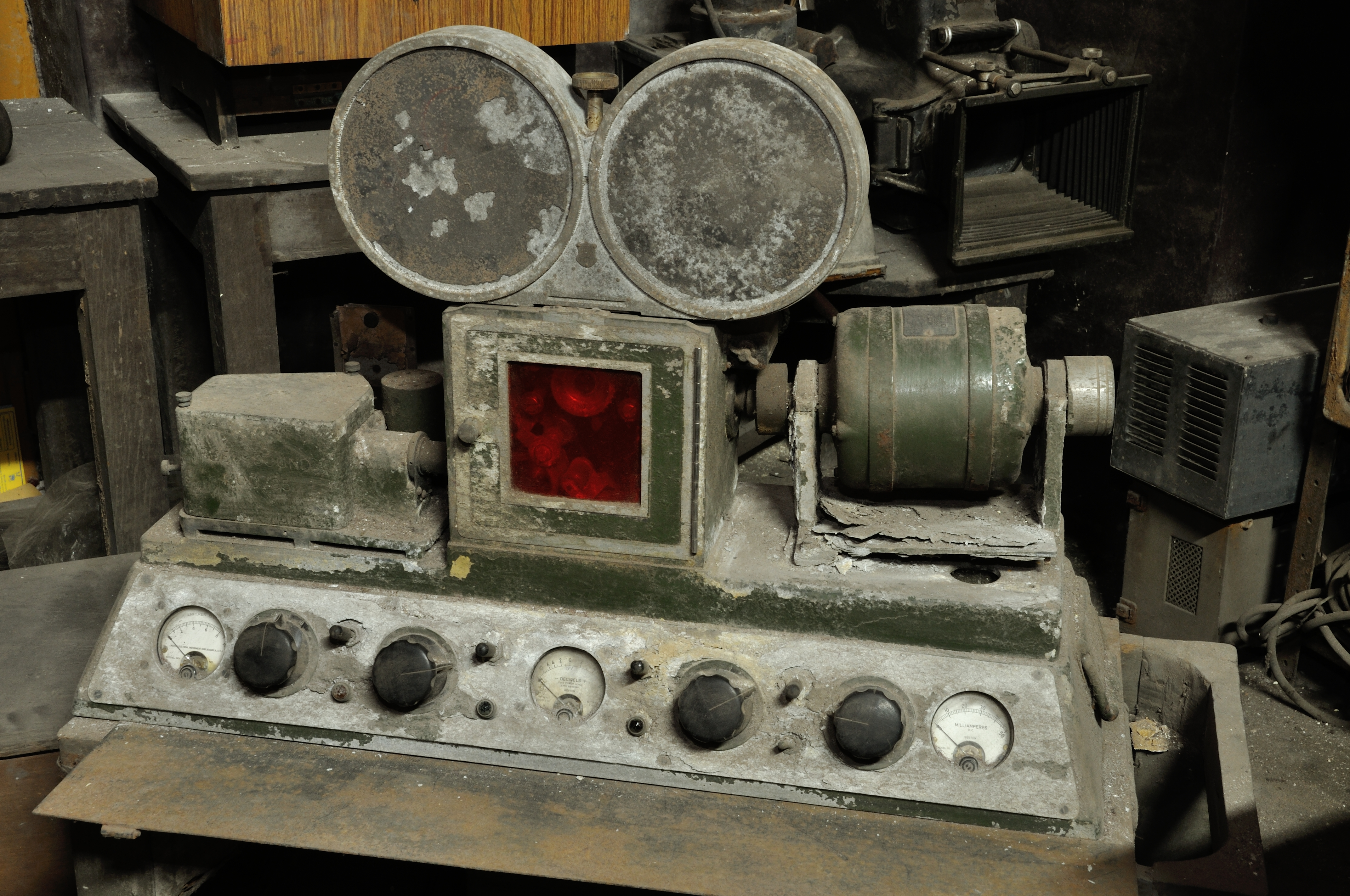 Cinematographic artifact that used in Kolkata.